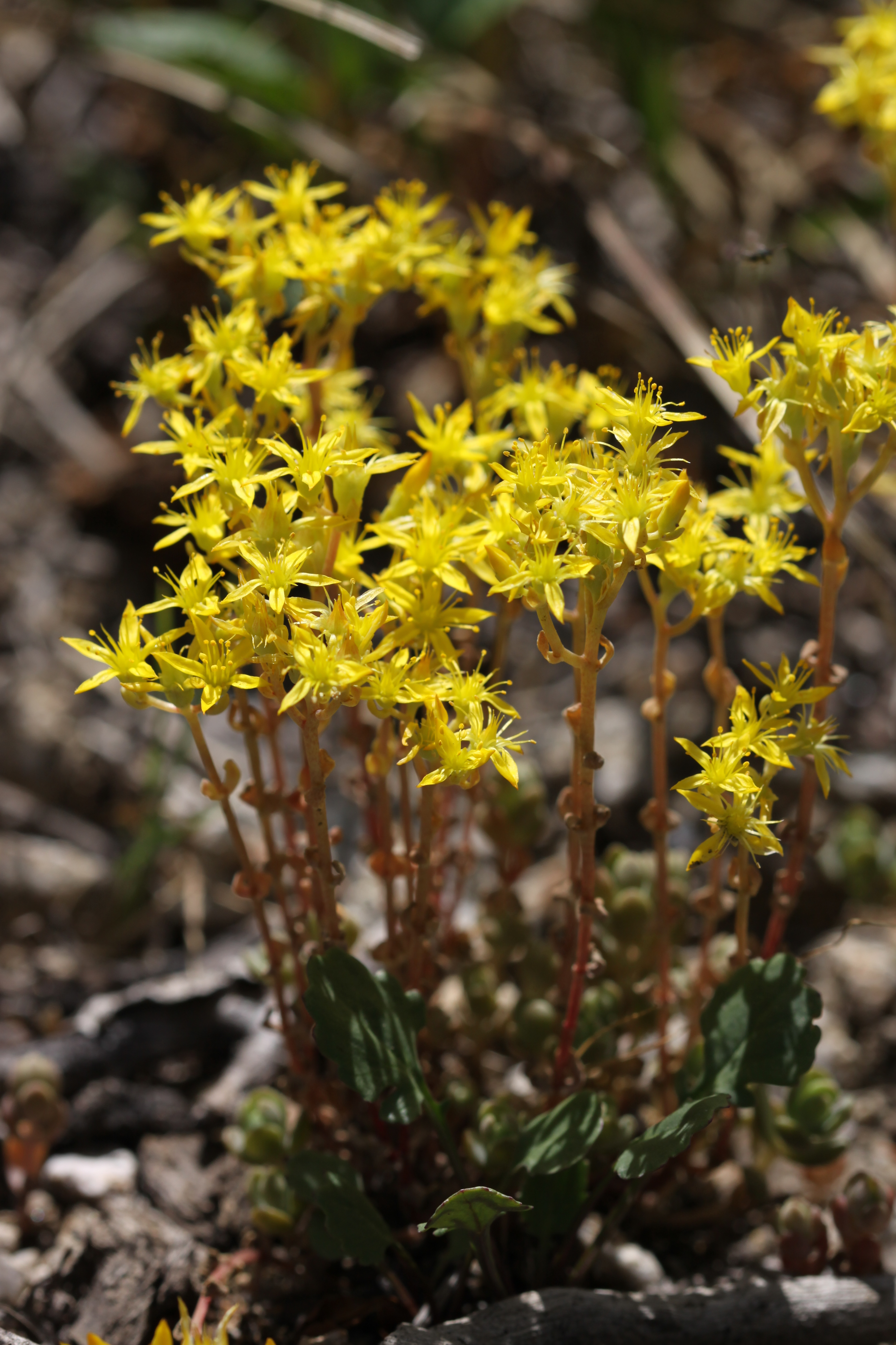 Orpine stonecrop (Sedum debile), Stonecrop family (Crassulaceae). Hogum Fork, Little Cottonwood Canyon, Utah; elevation 2341 m.